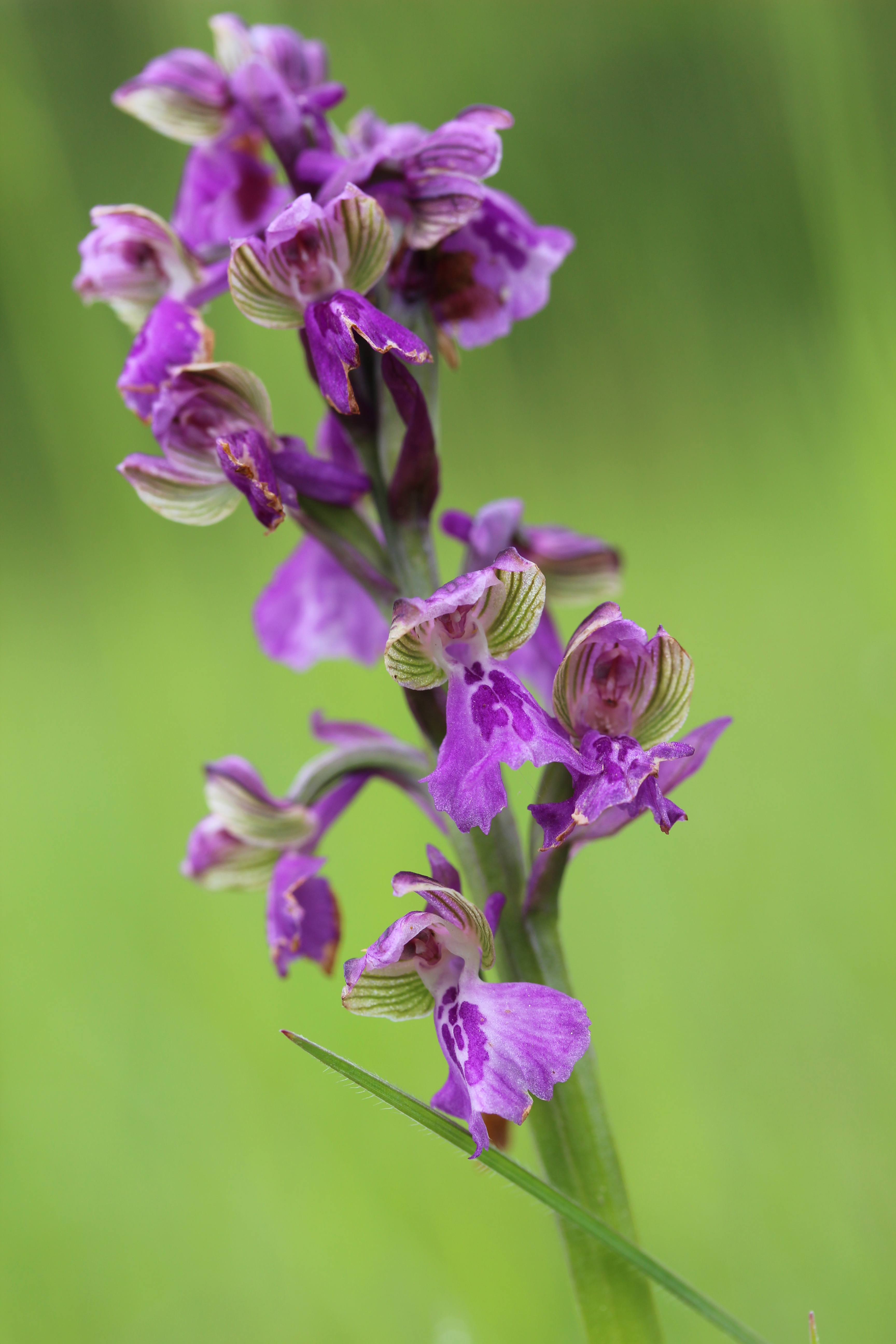 Green-winged Orchid - Anacamptis morio